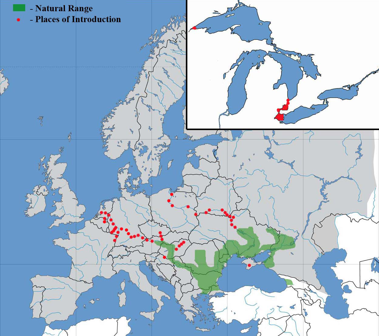 Tha range of the western tubenose goby (Proterorhinus semilunaris) in Old World and North-American Great Lakes